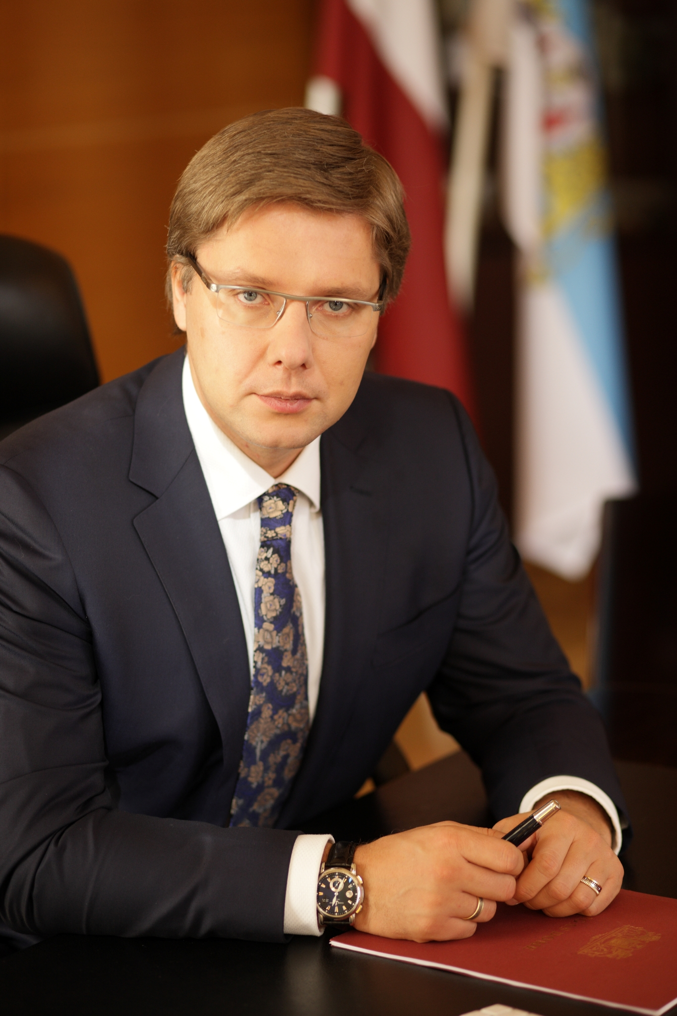 Nil Ushakov